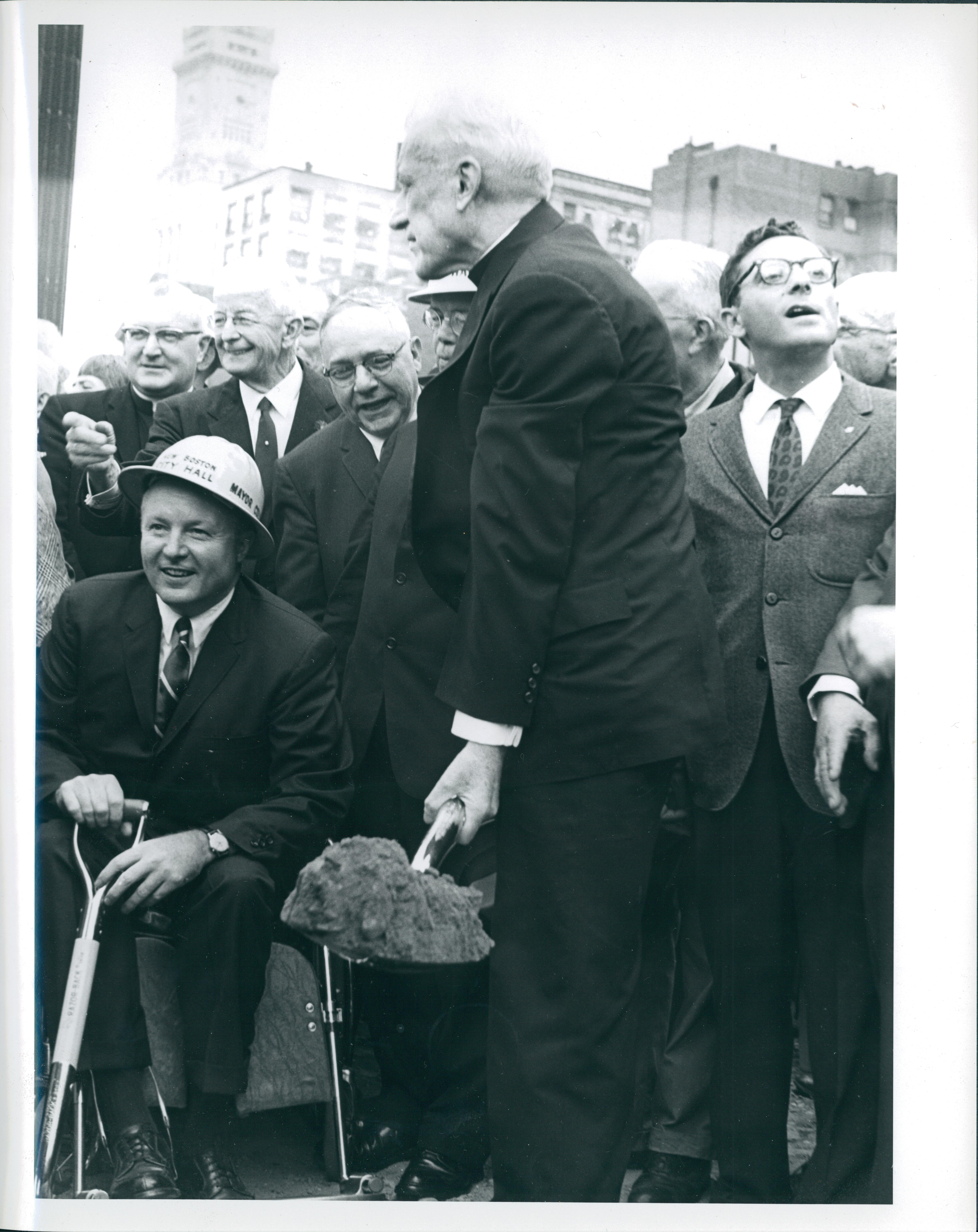 Title: Mayor John Collins and Archbishop Richard Cardinal Cushing at ground breaking of new City Hall Creator: Boston Redevelopment Authority Date: circa 1963-1965 Source: New York Streets Urban Renewal project, Boston Redevelopment Authority photographs, Collection # 4010.001 File name: R35_0053 Rights: Copyright City of Boston Citation: Boston Redevelopment Authority photographs, Collection # 4010.001, City of Boston Archives, Boston